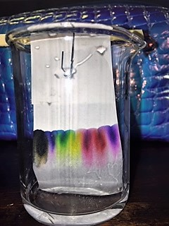 Paper chromatography in high school science lesson